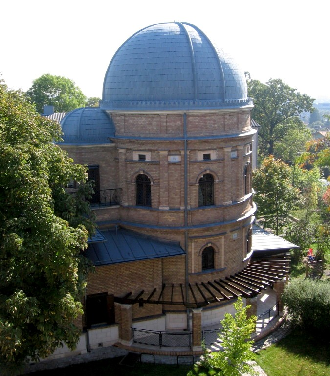 Kuffner-Observatory, Vienna, Austria. Heliometer dome, as seen from the main building.